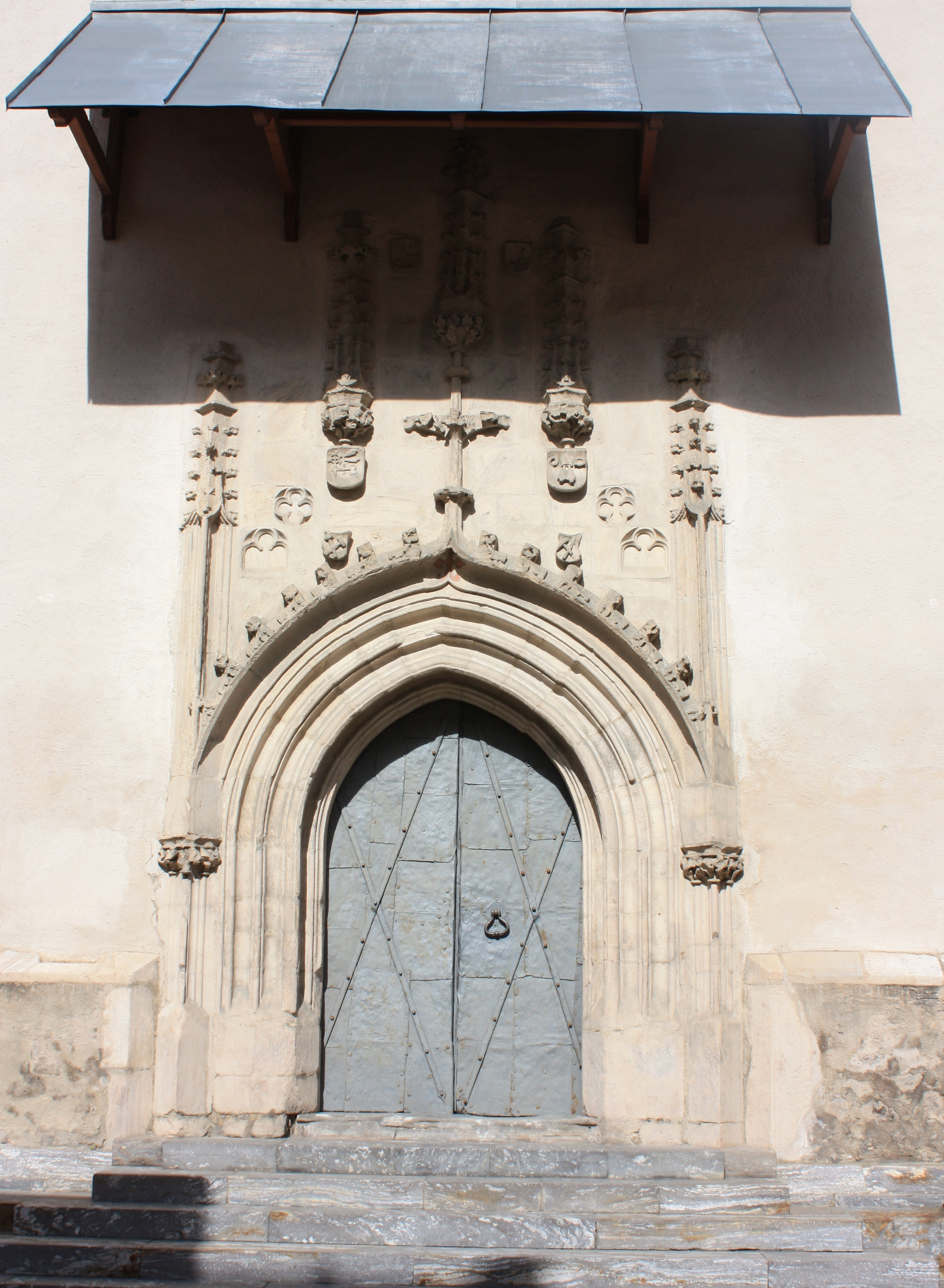 Portal of the parish church in Hüttenberg in the community of Hüttenberg